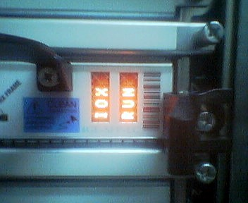 Close up of line card running Cisco IOS-XR.